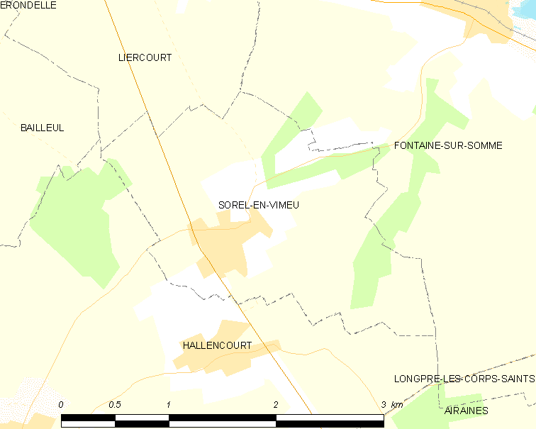 Map of French municipality Sorel-en-Vimeu